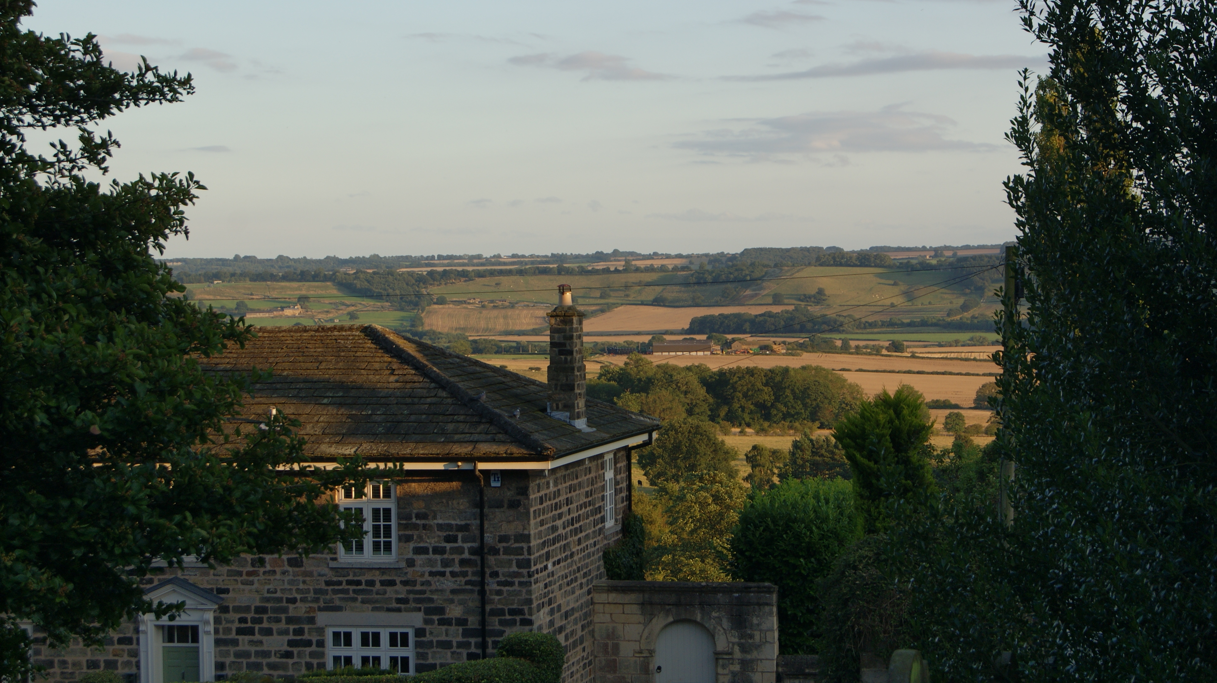 View over lower Wharfedale from Kirkby Overblow, North Yorkshire. Taken on the evening of Wednesday the 9th of August 2017.